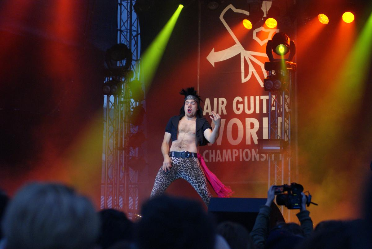 picture of Kevin "Narvalwaker" Leloux taken at the Airguitar Worldchampionships 2010 in Oulu, Finland